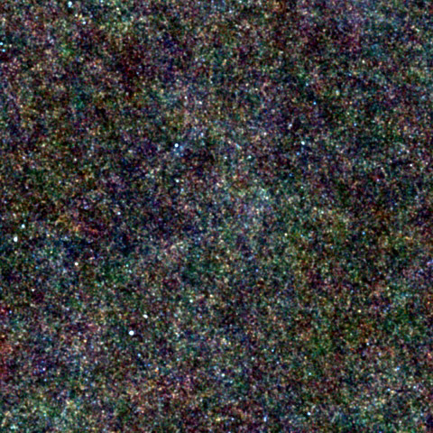 A region of the sky called the "Lockman Hole", located in the constellation of Ursa Major, is one of the areas surveyed in infrared light by the Herschel Space Observatory. All of the little dots in this picture are distant galaxies. The pattern of their collective light is what's known as the cosmic infrared background. By studying this pattern, astronomers were able to measure how much dark matter it takes to create a galaxy bursting with young stars. Regions like this one are almost completely devoid of objects in our Milky Way galaxy, making them ideal for astronomers studying galaxies in the distant universe.